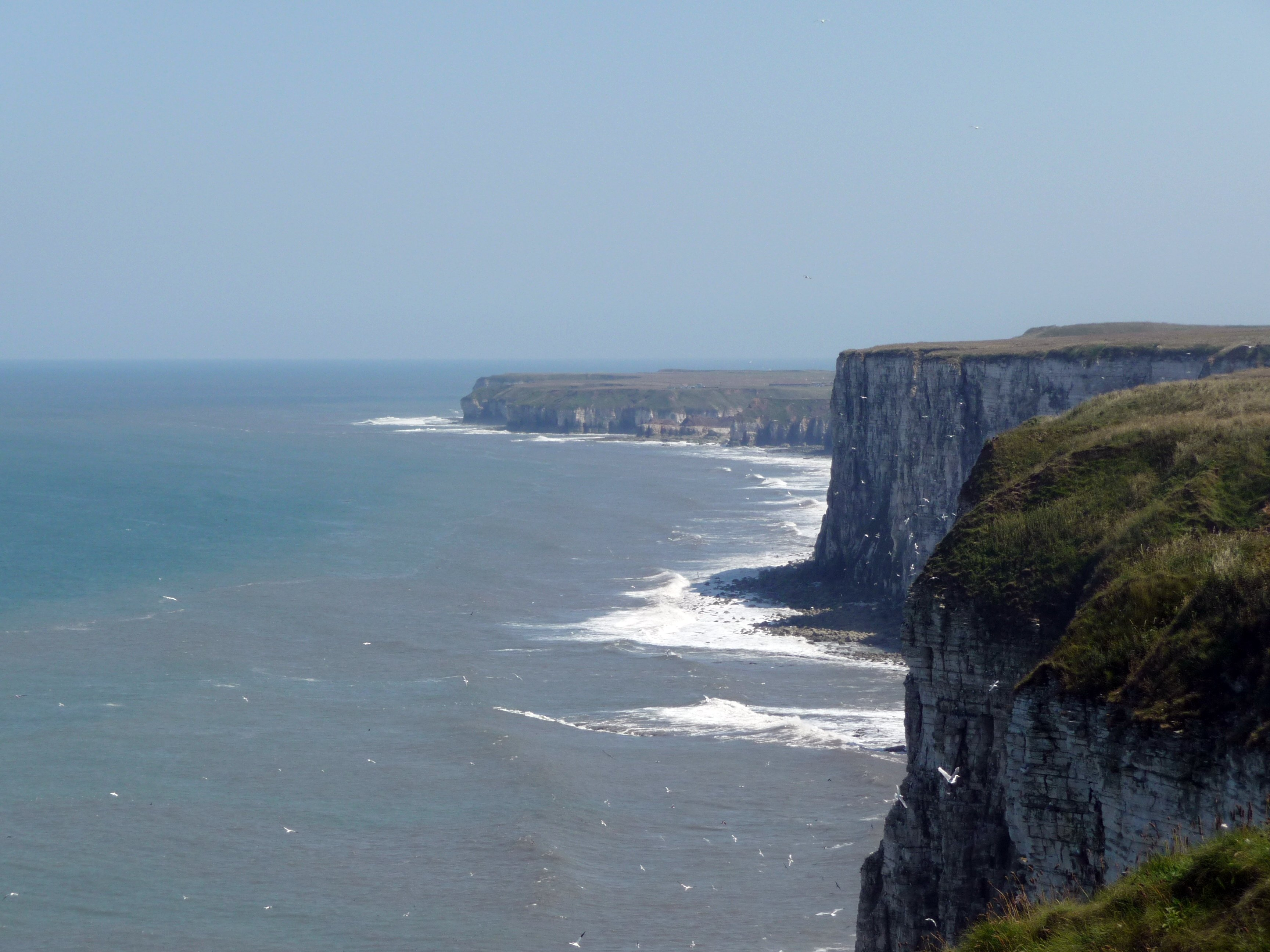 Bempton Cliffs on the coast of the East Riding of Yorkshire, England, looking south towards Flamborough Head.